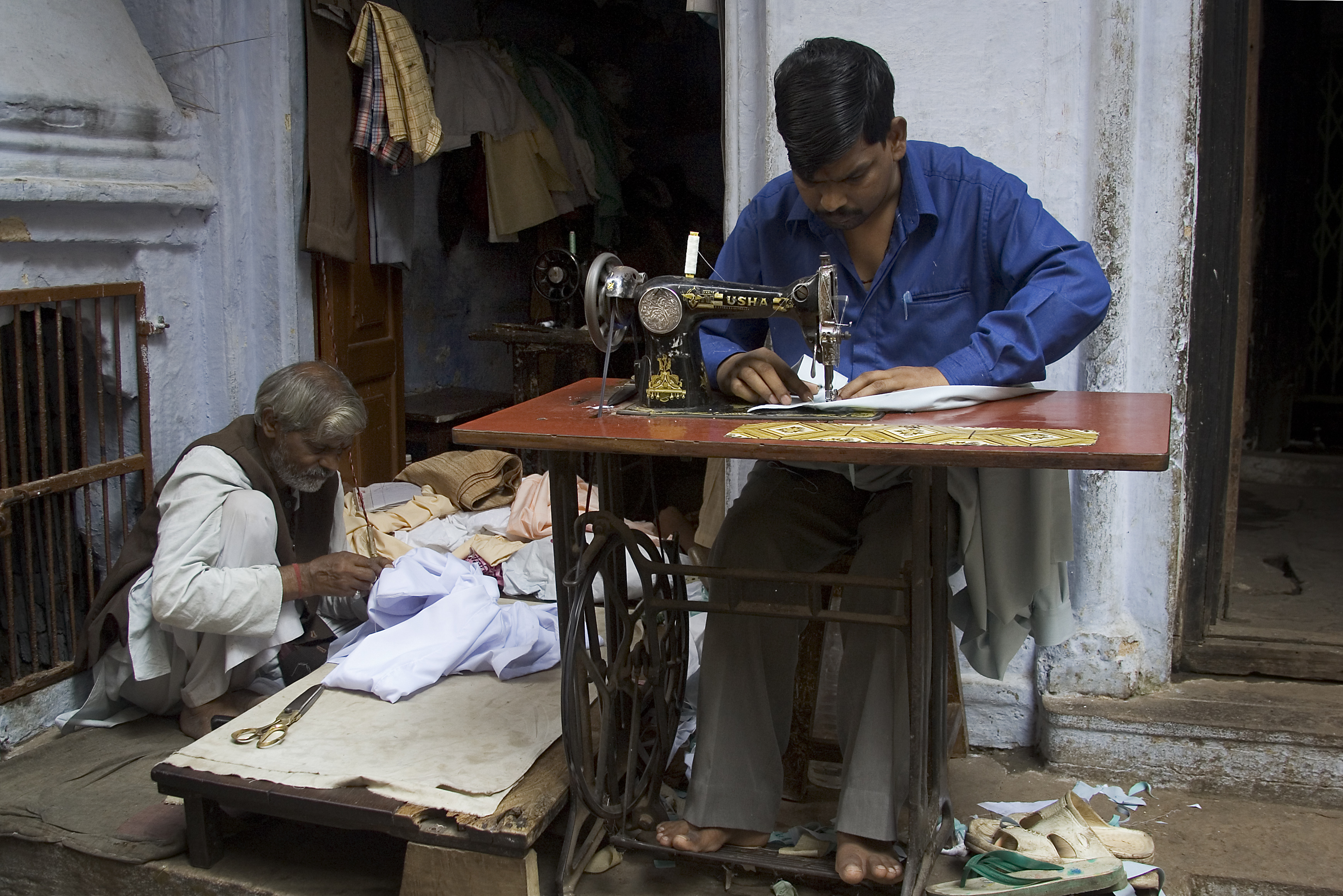 Tailor working with his old sewing machine Varanasi Benares India